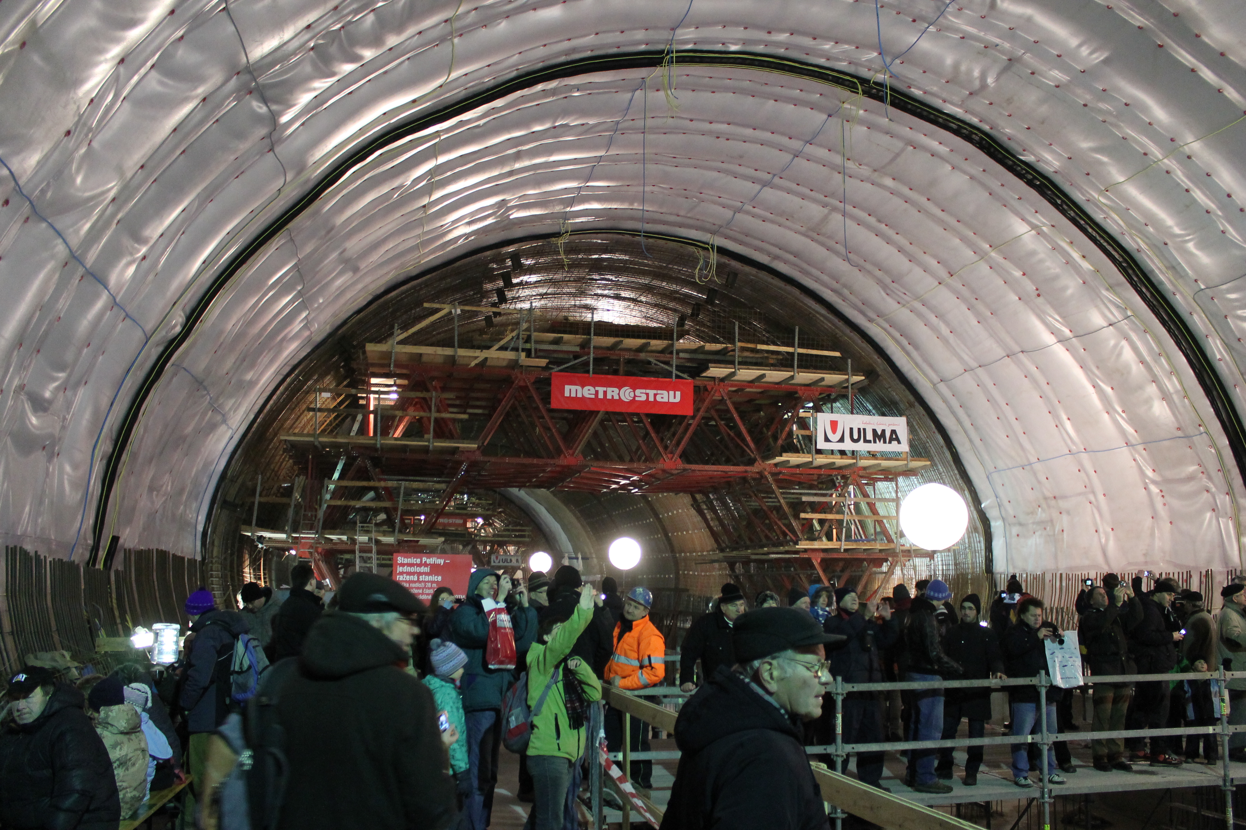 Metro station Petřiny in Prague, section V.A, open day